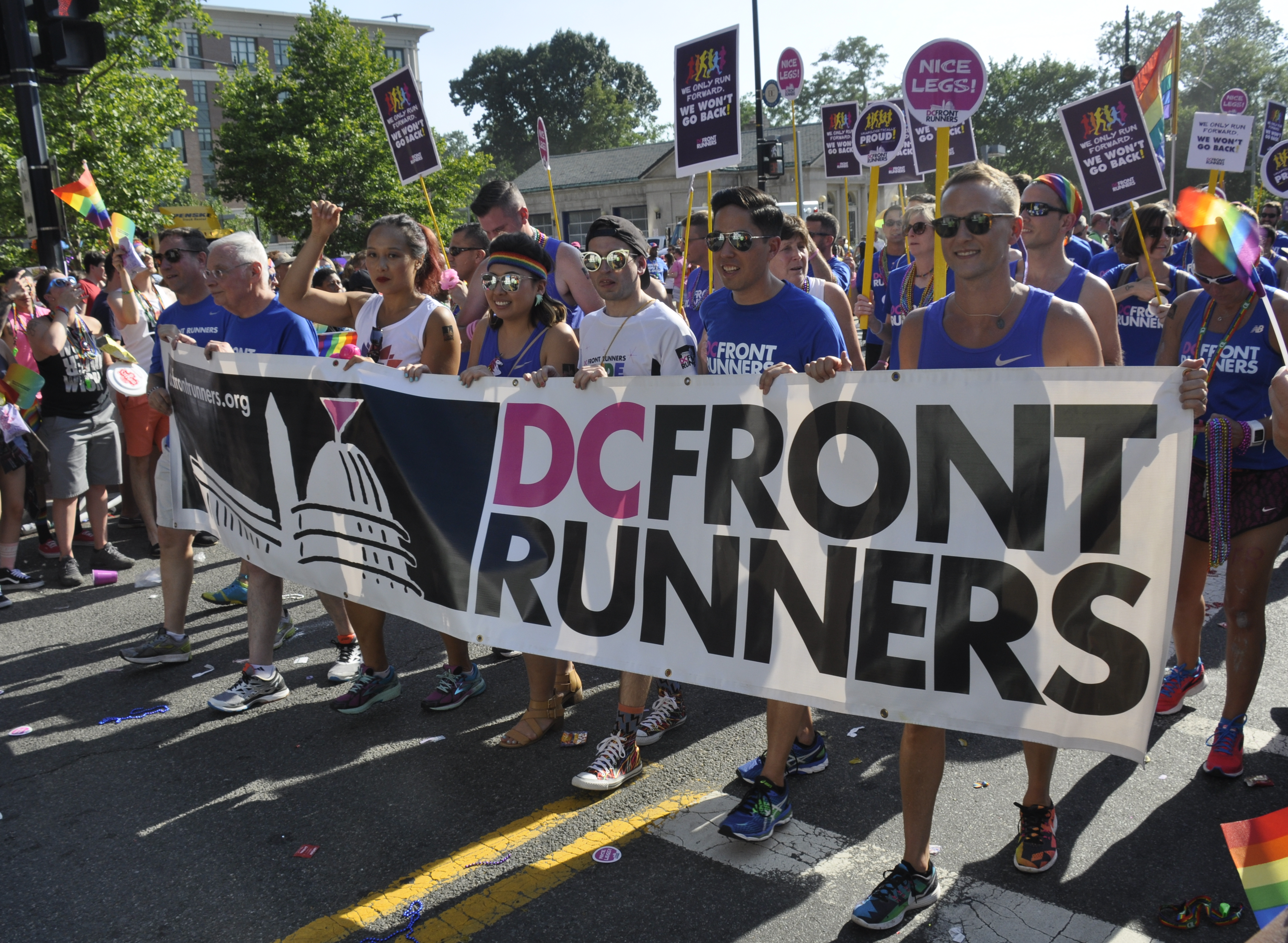 2017 Capital Pride in Washington, D.C.